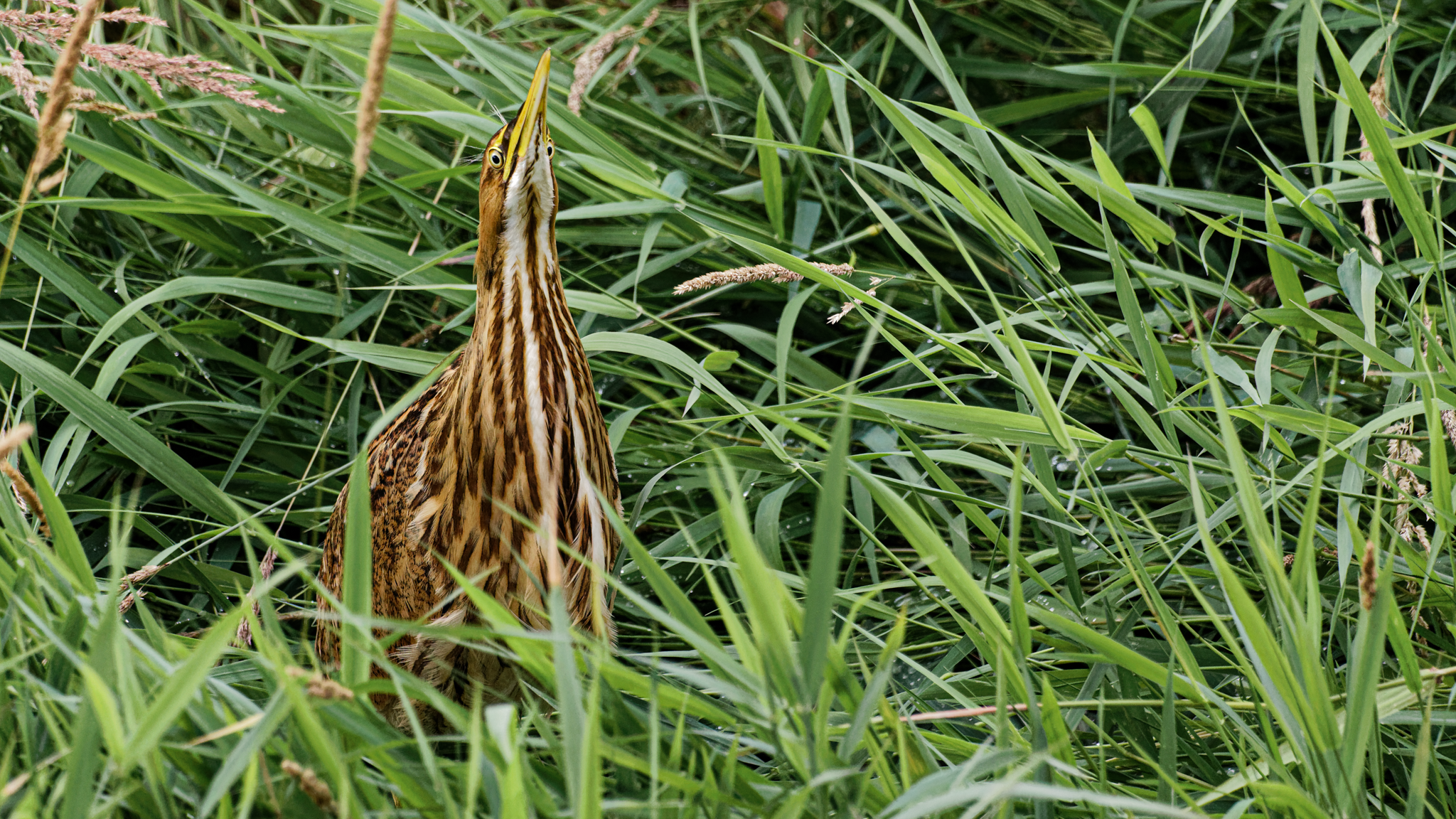 American Bittern photographed at Colony Farm Regional Park in Port Coquitlam by Kyle Bailey from City Sidewalk Marketing.